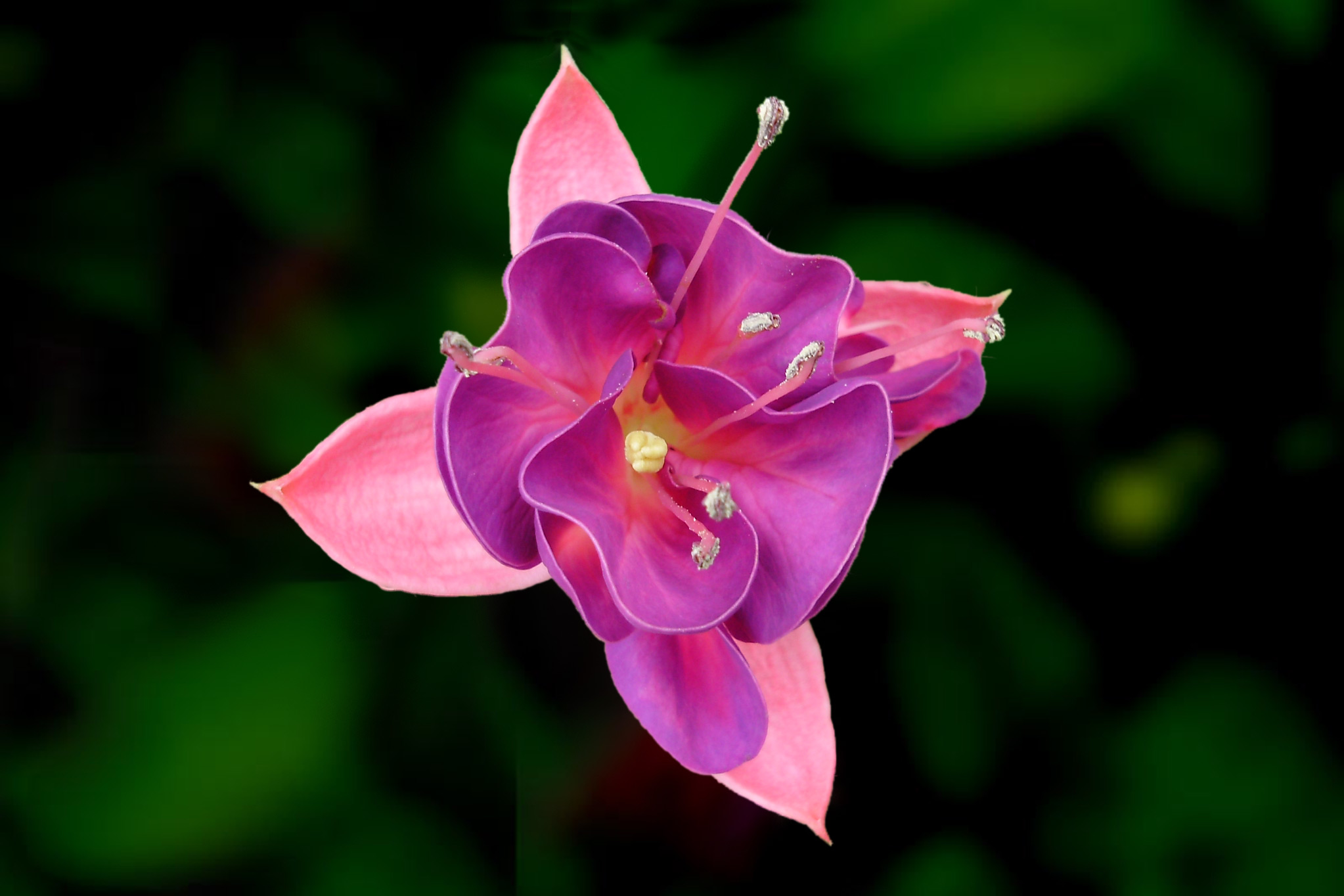 Fuchsia blooming in July in a garden in Dublin, Ireland.